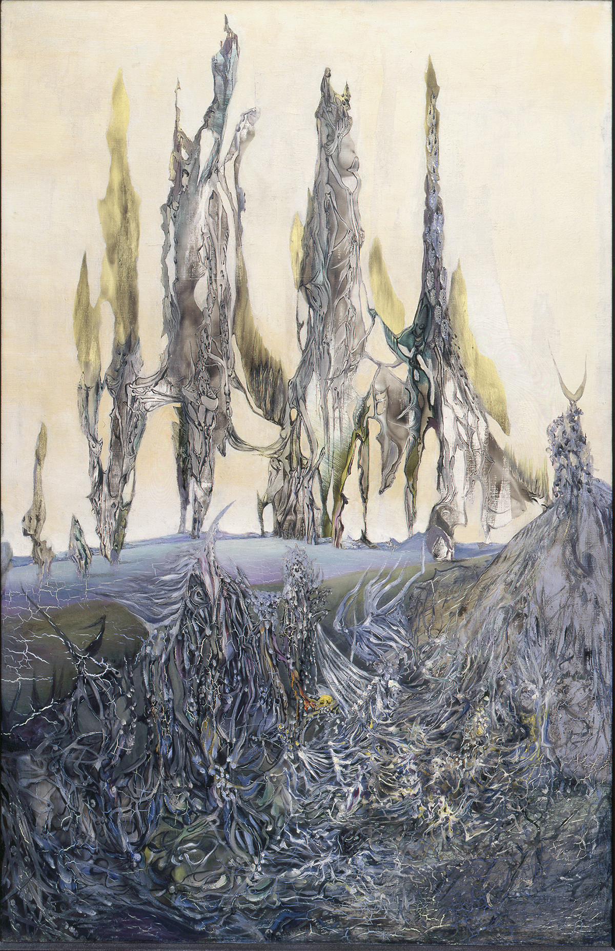 Wolfgang Paalen, Les étrangers 1937